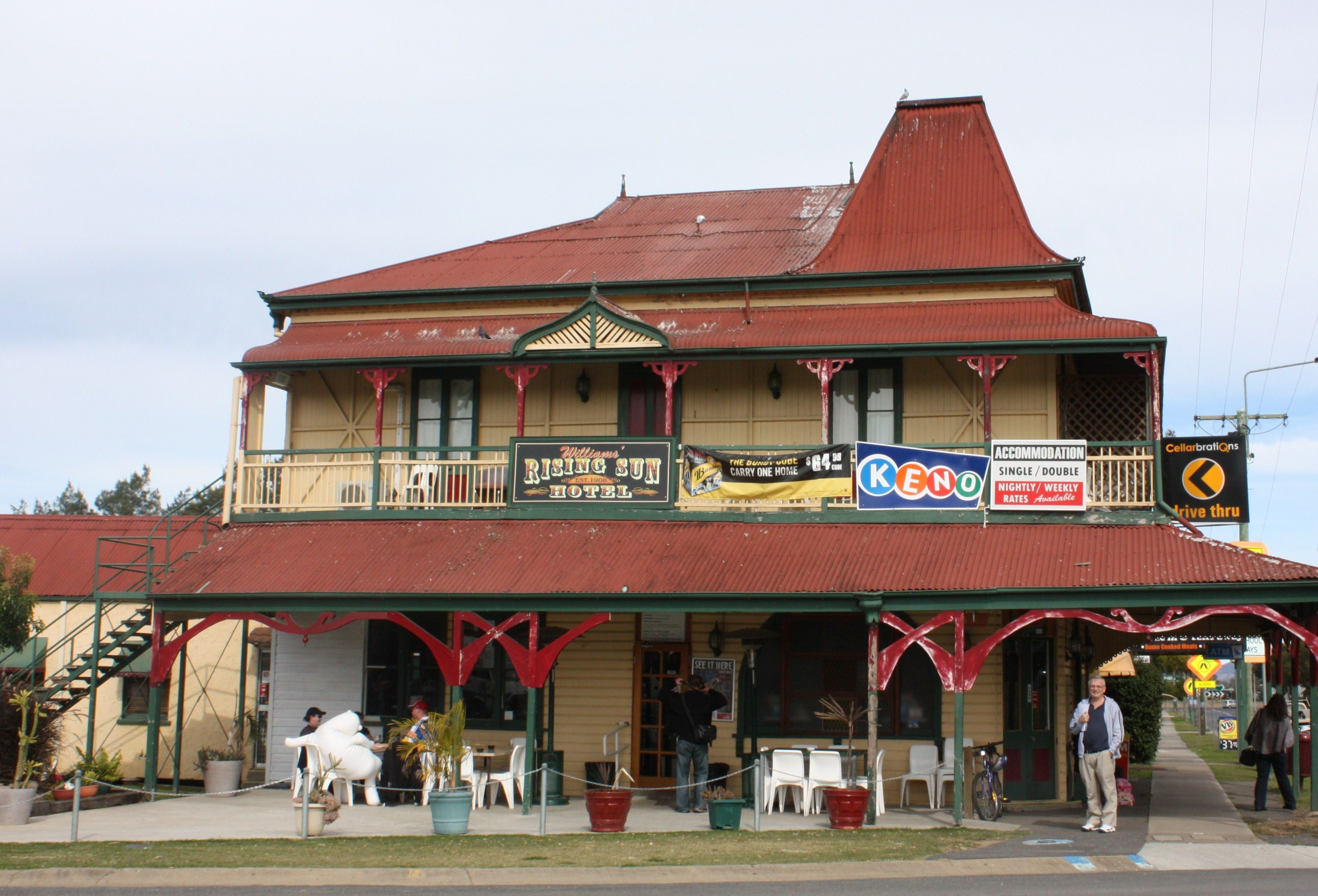 Designed by Ipswich architect Will Haenke, the hotel retains its unusual corner roof turret.